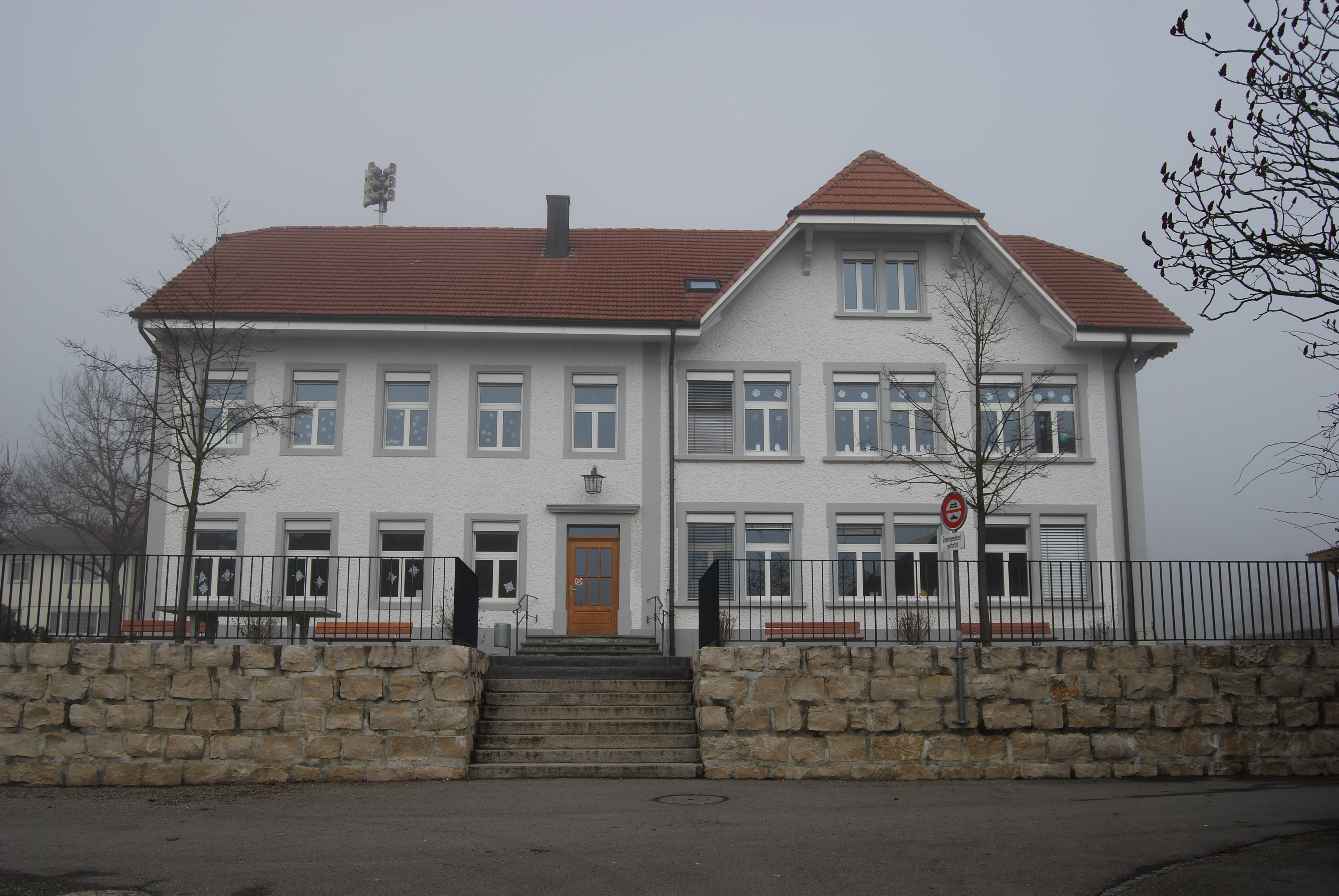 School of Matzendorf, canton of Solothurn, Switzerland